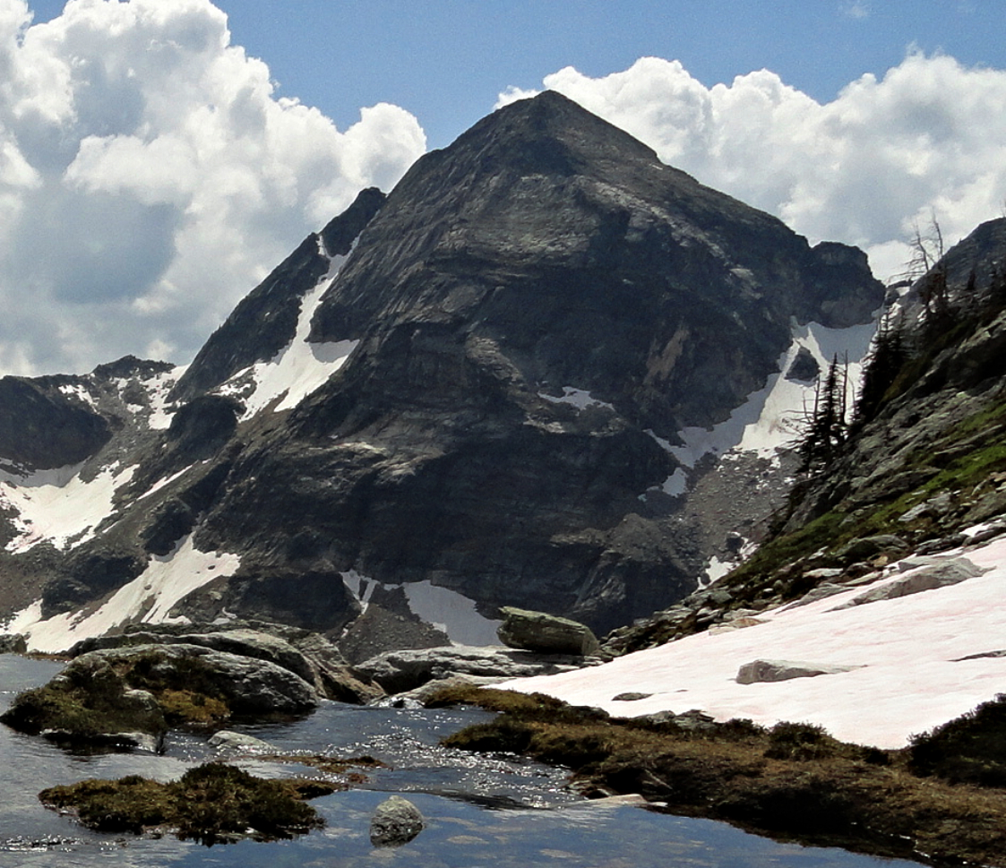 Gregorio Peak in Valhalla Provincial Park seen from Gwillim Lakes